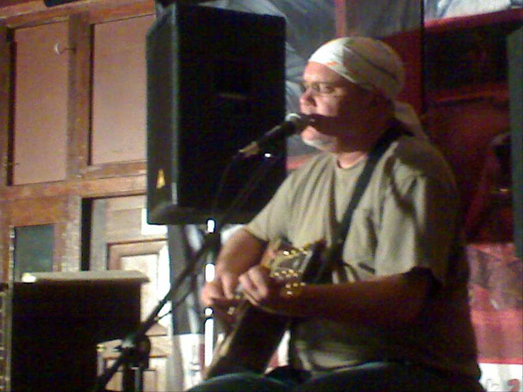 The legendary Koos Kombuis shows he has stll got what it takes at a sold-out show at Back2Basix, Westdene.